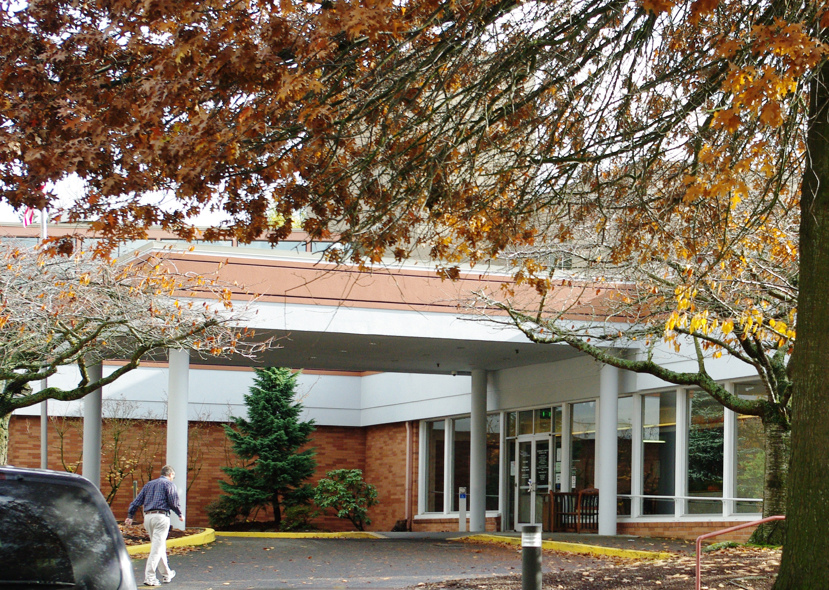 Vibra Specialty Hospital, formerly the Woodland Park Hospital in Portland, Oregon, USA.